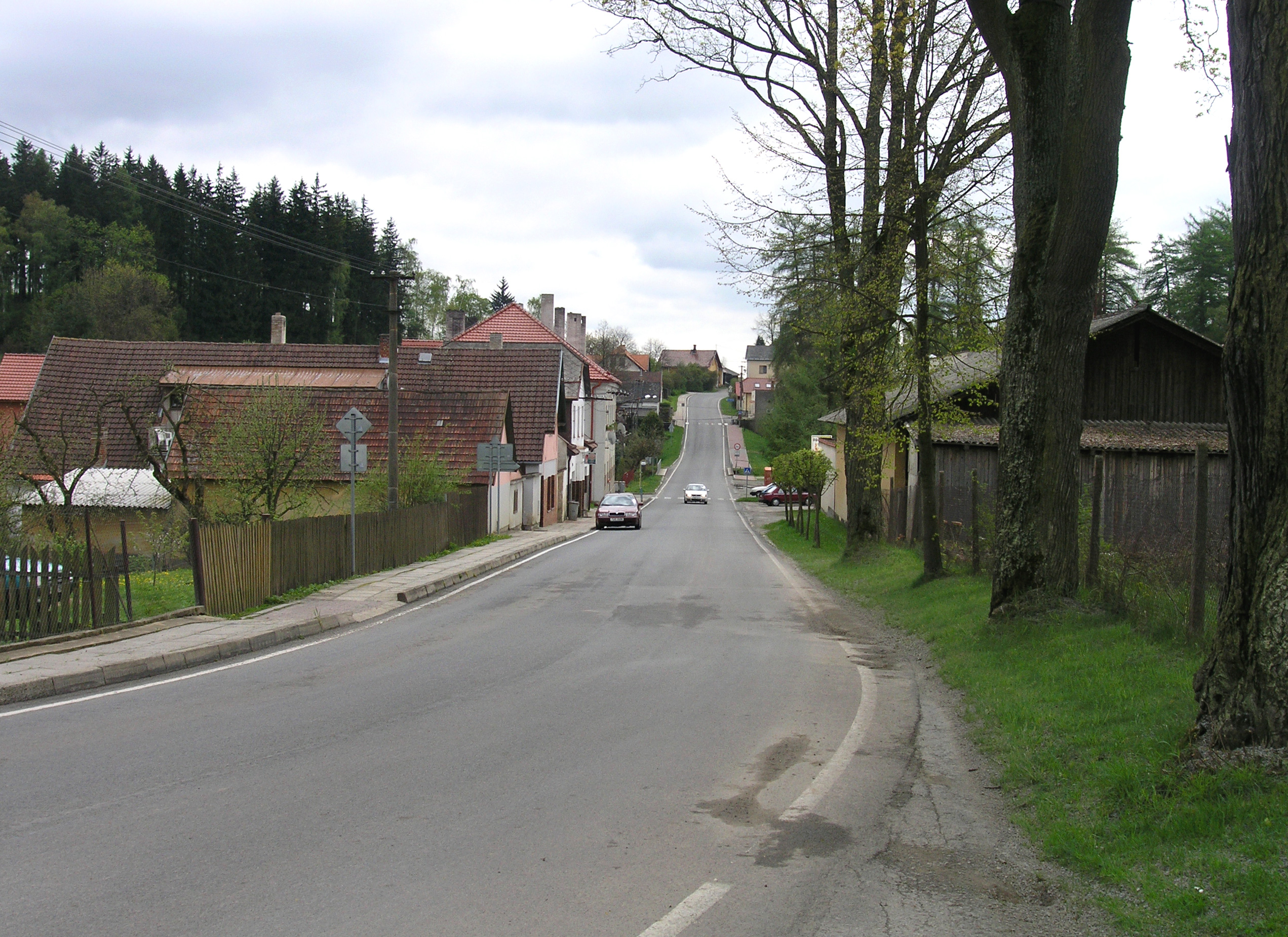 Road No. 409 in Včelnička village, Czech Republic